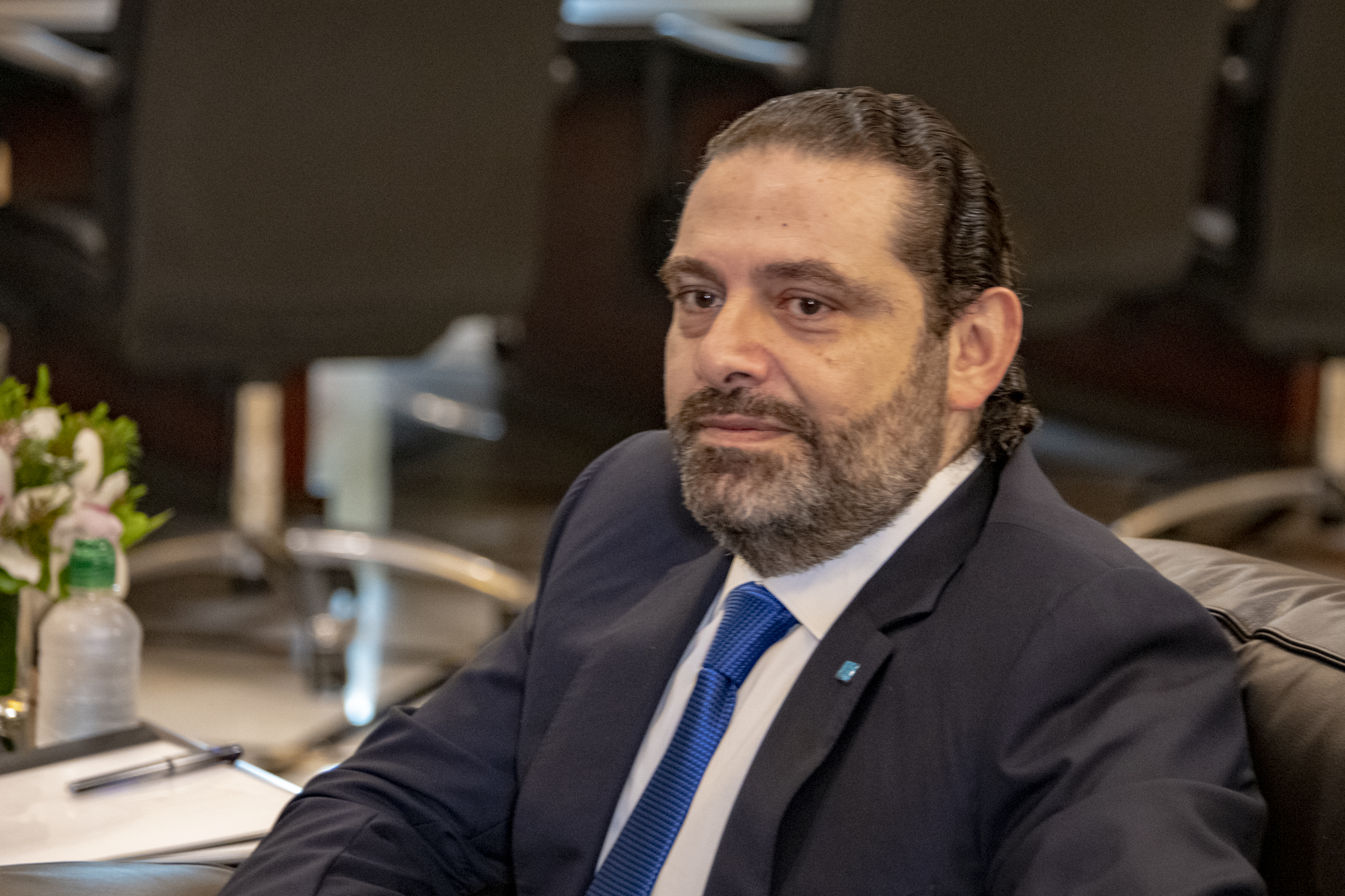 U.S. Secretary of State Michael R. Pompeo meets with Lebanese Prime Minister Saad Hariri in Beirut, Lebanon, on March 22, 2019. [State Department photo by Ron Przysucha/ Public Domain]